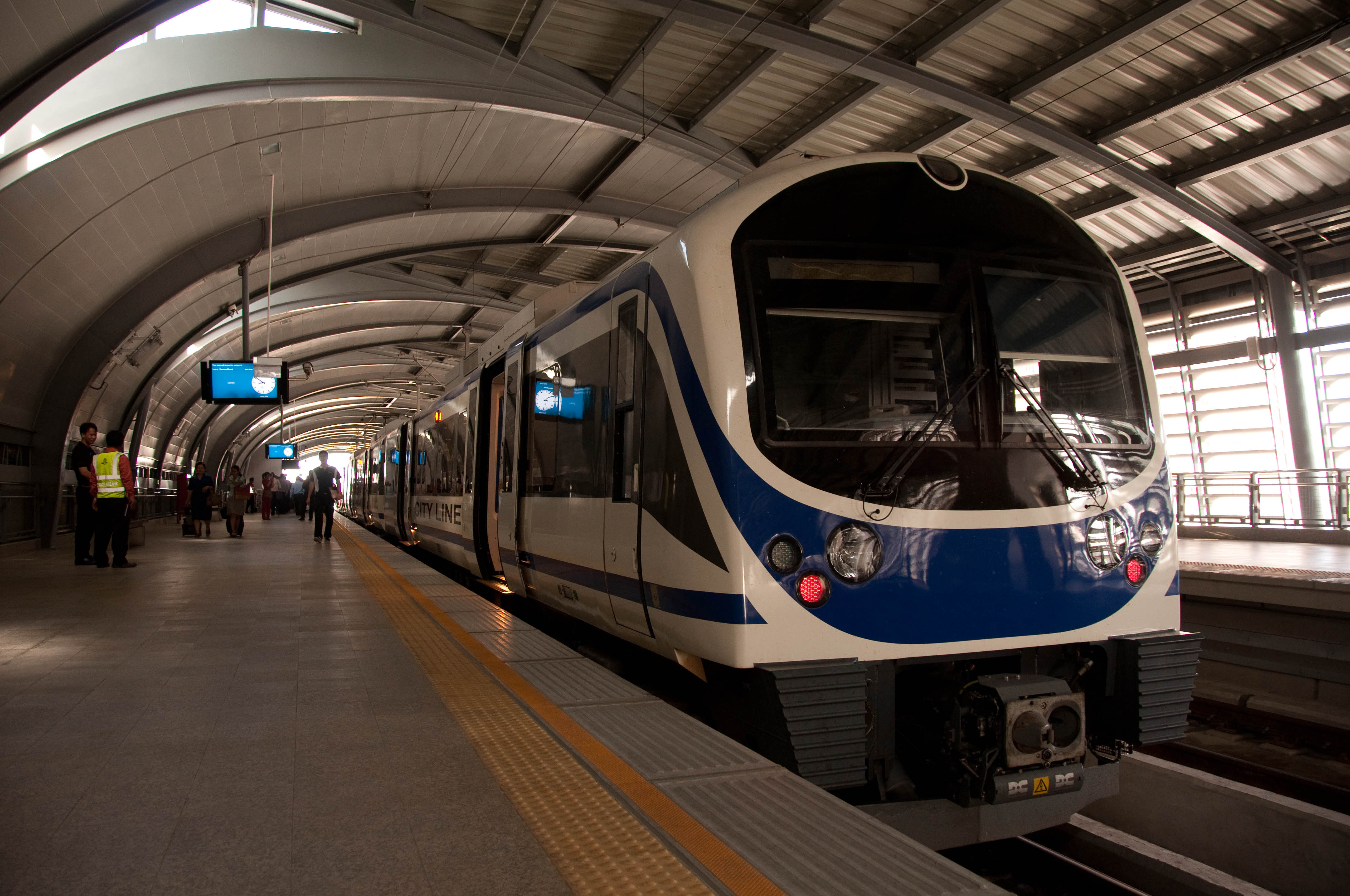 A train waits at Phaya Thai station on the the new Airport Rail Link train connecting Suvanabhumi airport with downtown Bangkok.